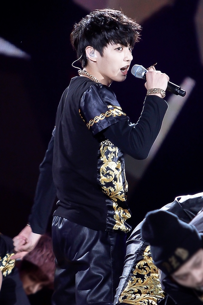 Jung Kook at Incheon Korean Music Wave September 1, 2013.